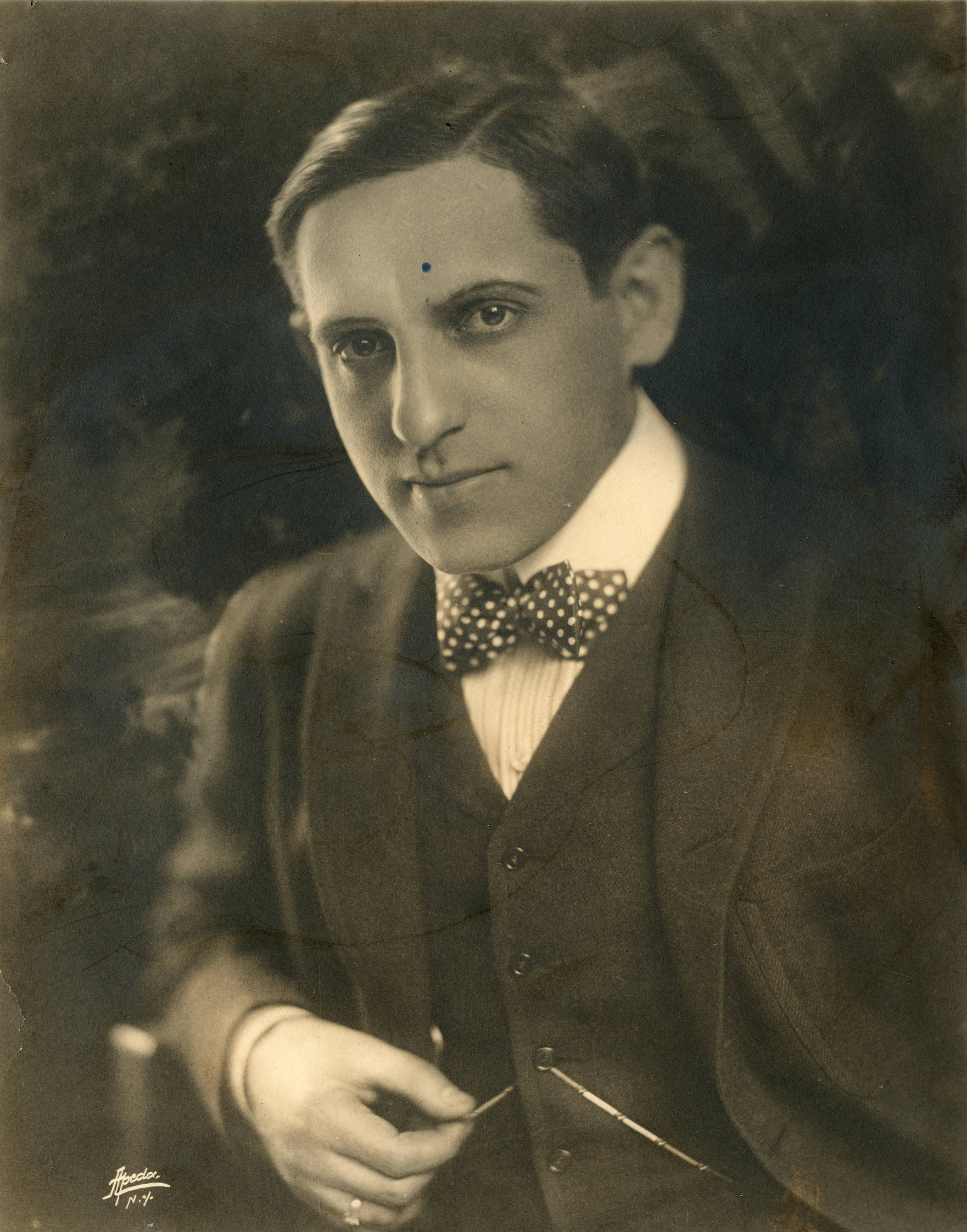 Vaudeville entertainer and composer Gus Edwards. Subjects: vaudeville